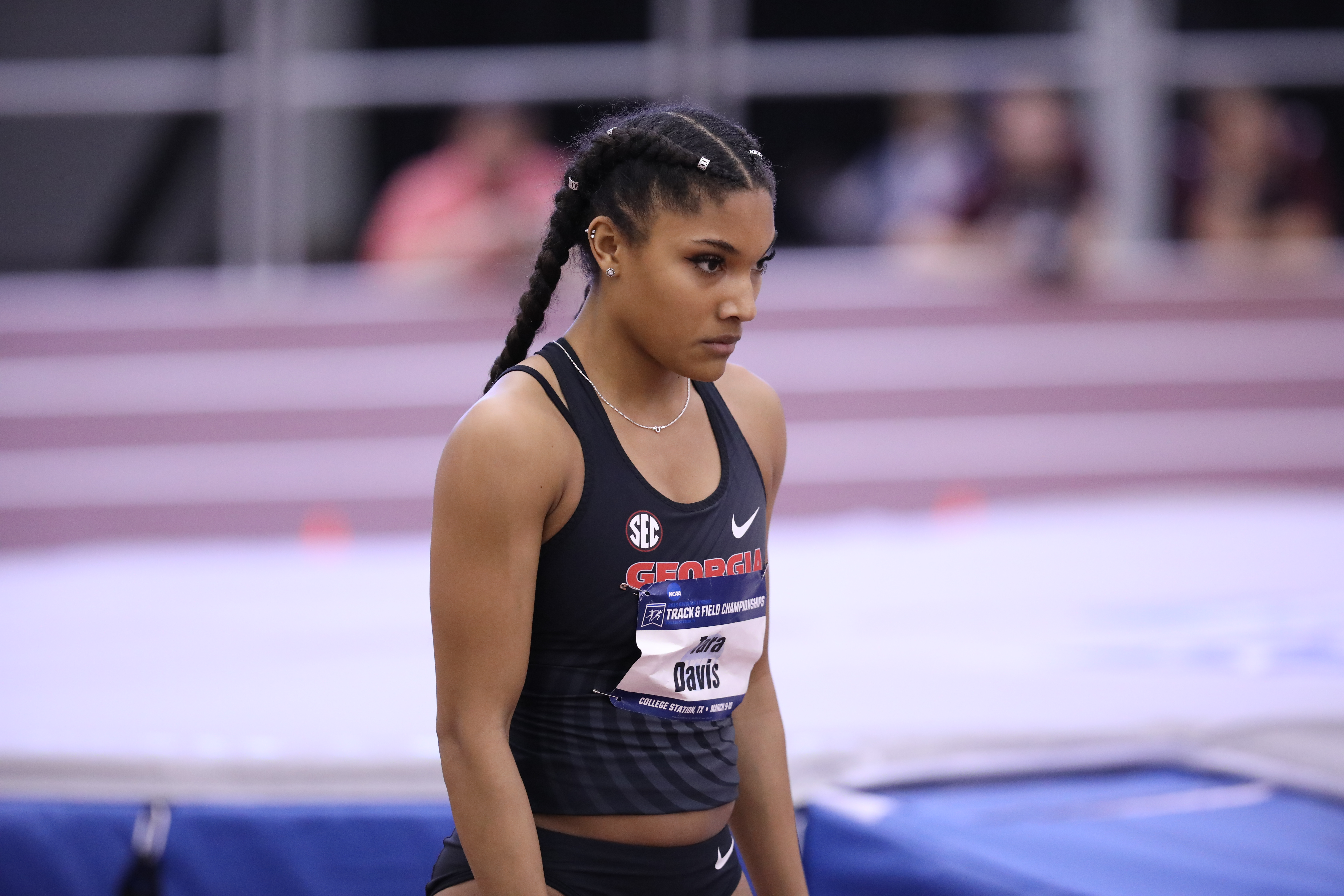 2018 NCAA Division I Indoor Track and Field Championships